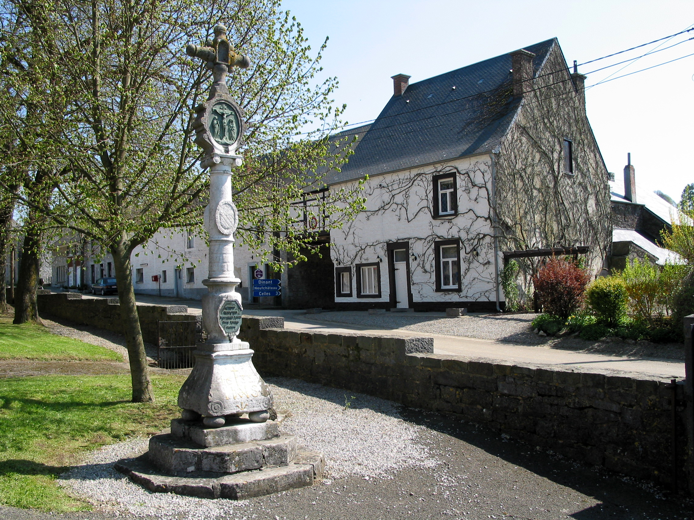 Foy-Notre-Dame (Belgium), the baroque calvary (1633).